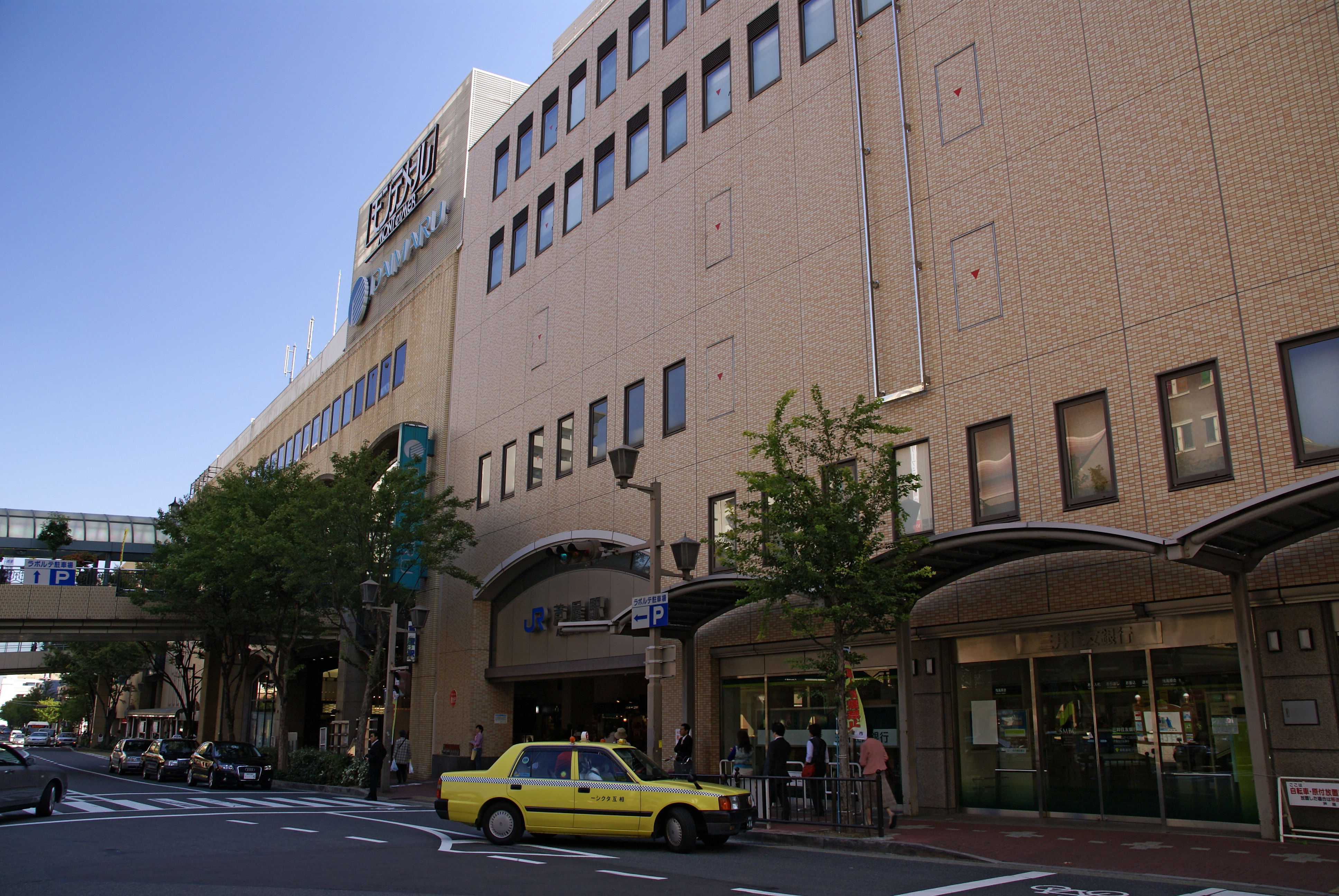 JR Ashiya Station in Ashiya, Hyogo prefecture, Japan